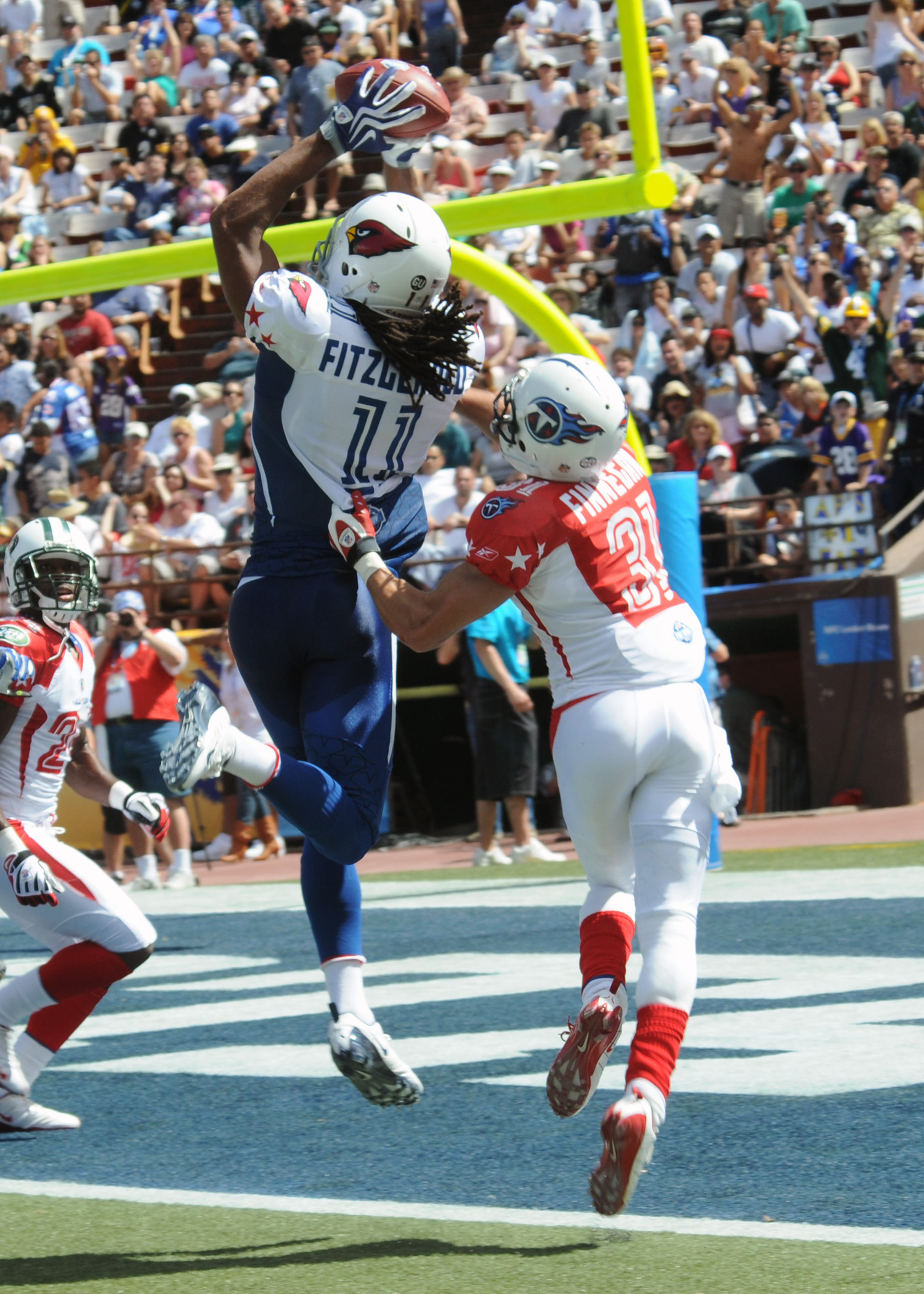 Arizona Cardinals wide receiver Larry Fitzgerald catches a touchdown pass from New Orleans Saints quarterback Drew Brees during the fourth quarter of the National Football League Pro Bowl Feb. 8, 2009, at Aloha Stadium in Honolulu. VIRIN: 090208-N-9758L-854